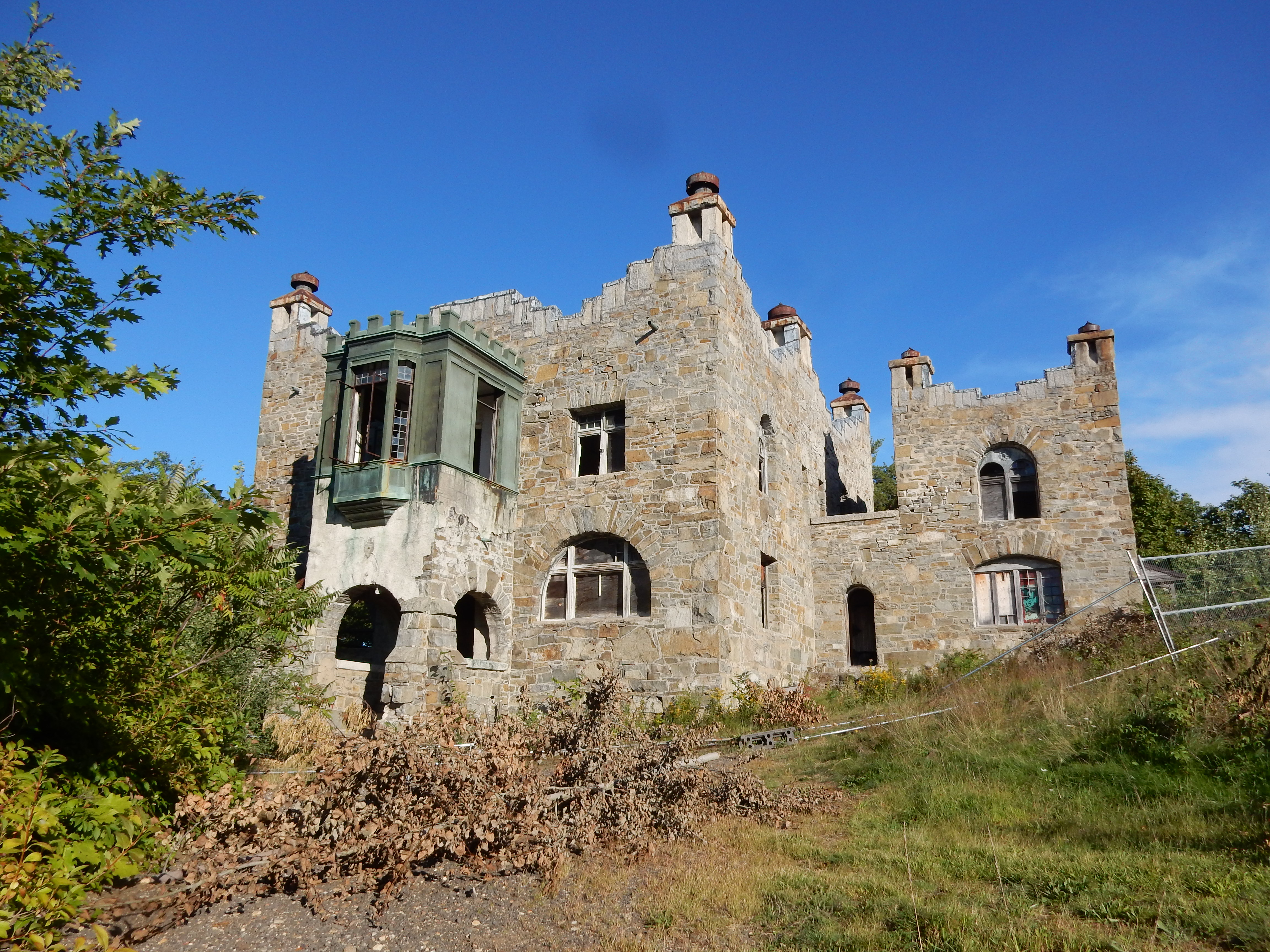 Kimball Castle is the former summer estate of railroad magnate Benjamin Ames Kimball. Benjamin Kimball, a director of railroad companies operating in the region, built the castle and estate outbuildings beginning in 1894, and used it as his summer estate until his death in 1920.